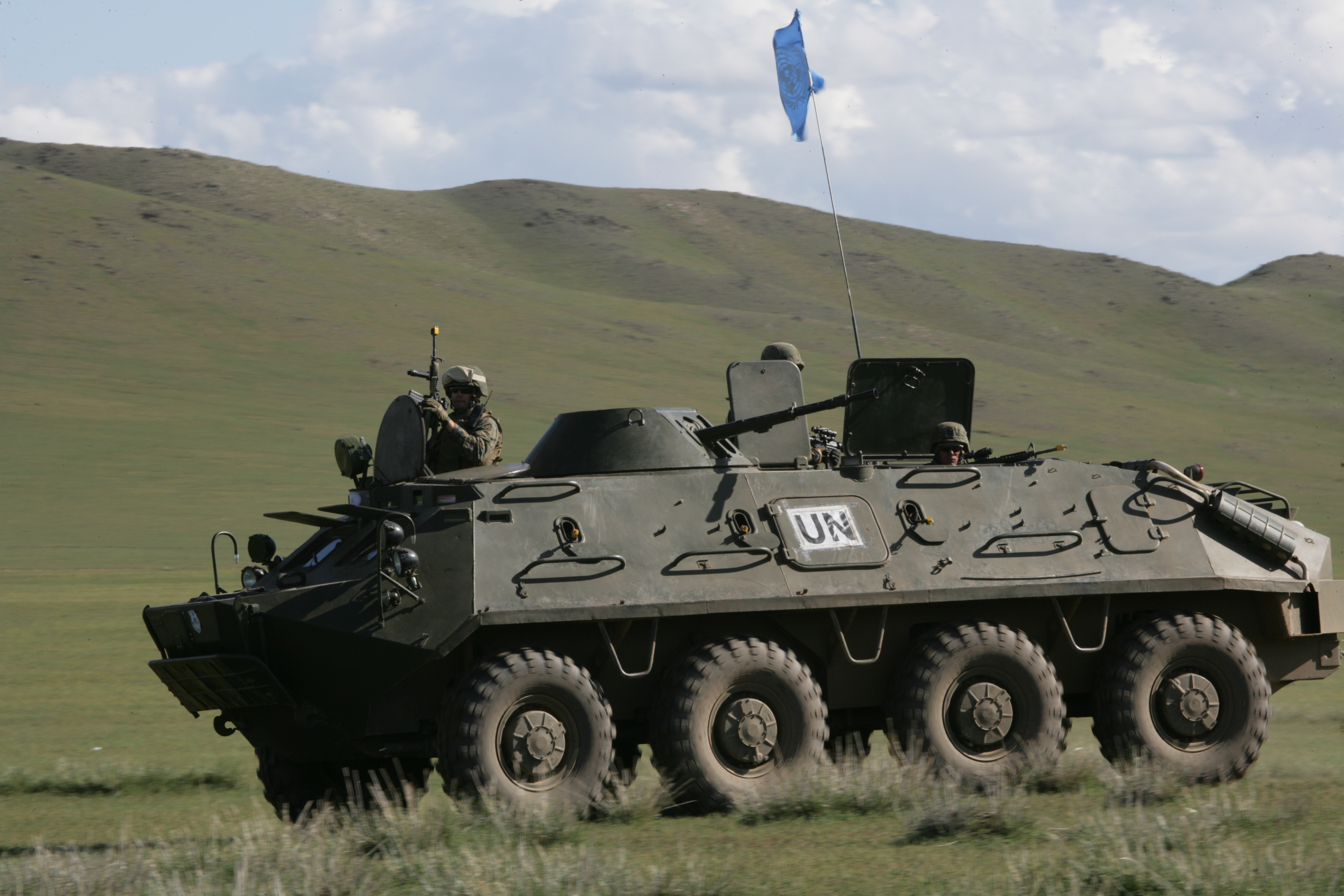 U.S. Marines ride in a United Nations' BTR-60 while participating in a convoy operations scenario during exercise Khaan Quest 2009 at Five Hills Training Area, Mongolia, August 19th, 2009. This is one of six scenarios conducted during the exercise to train multinational units in United Nations' procedures.